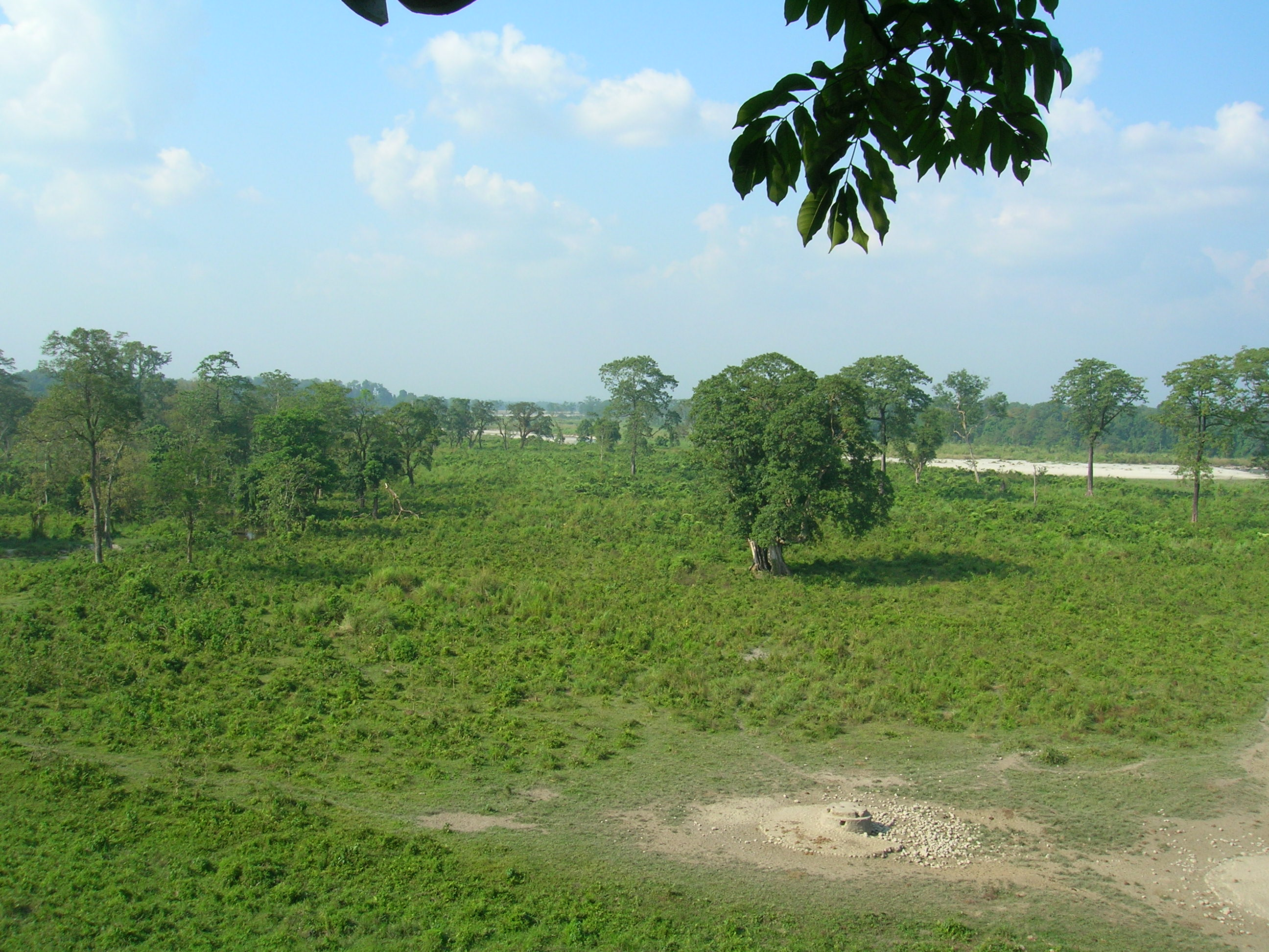 Gorumara National Park